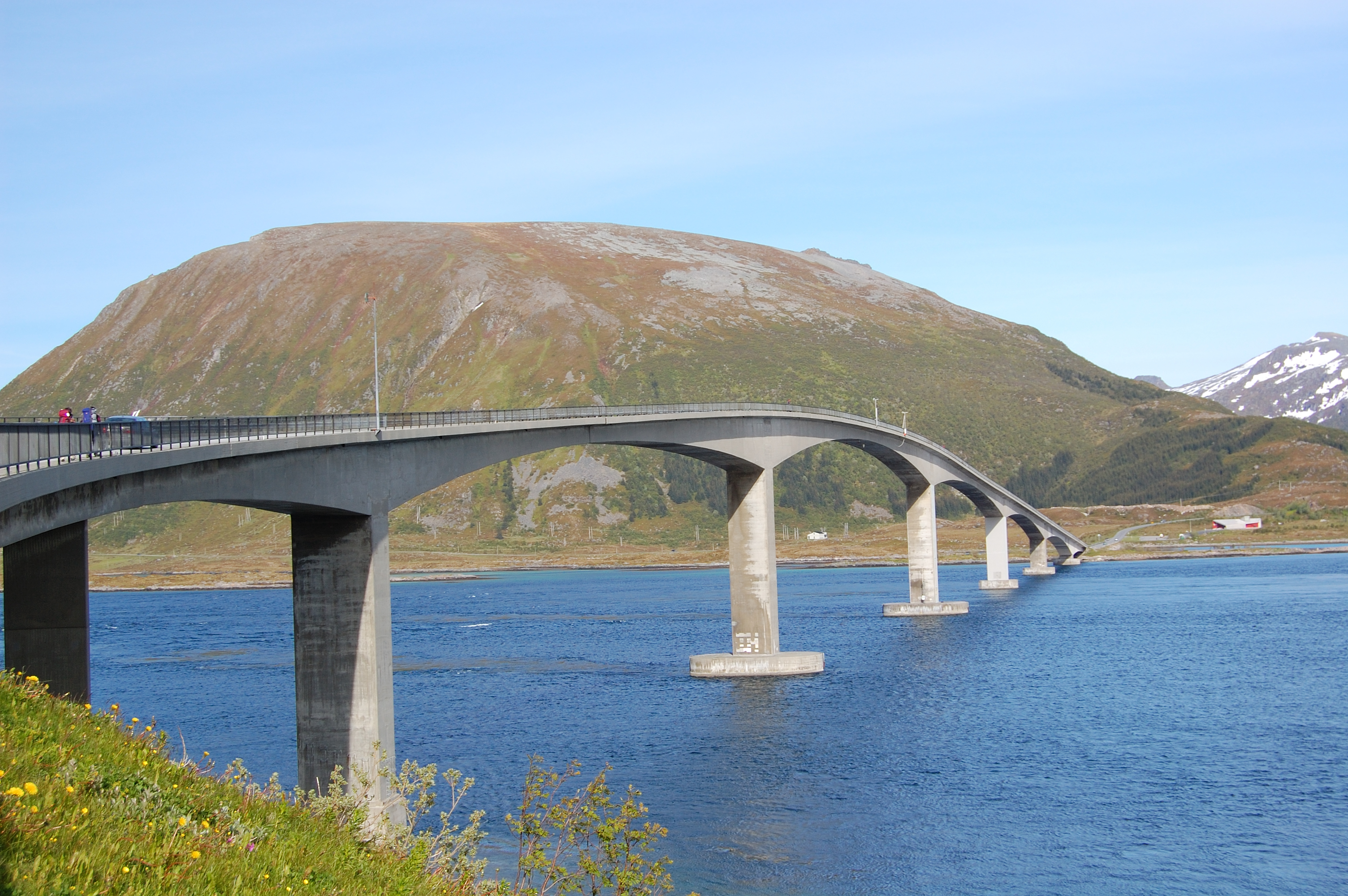 The Gimsøystraumen Bridge connecting Austvågøya and Gimsøy in Nordland county, Norway.